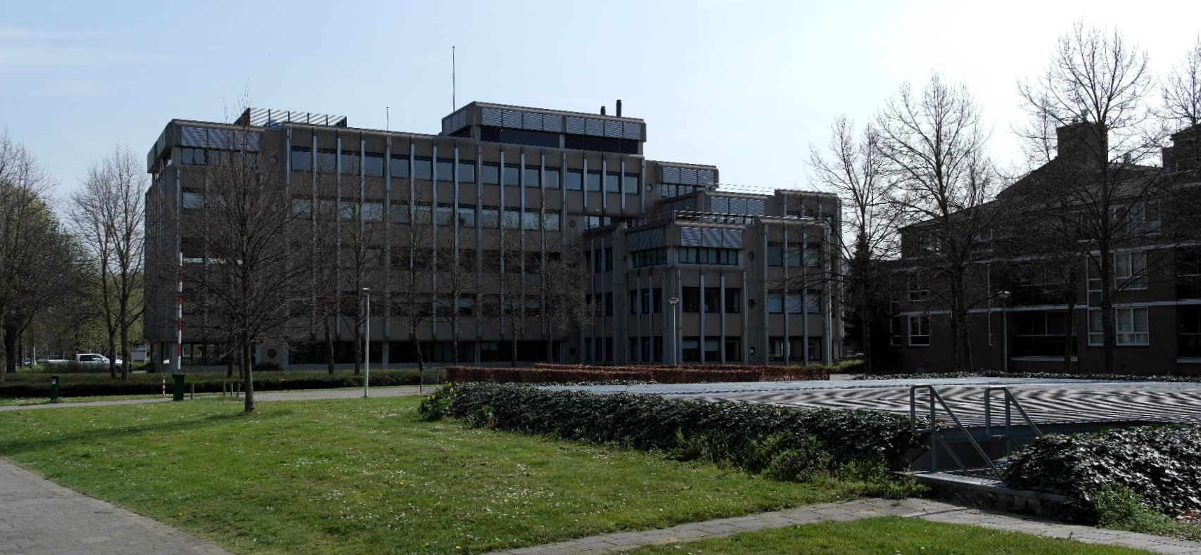 Maastricht, the Netherlands. View of offices in the southeastern Randwyck business district.